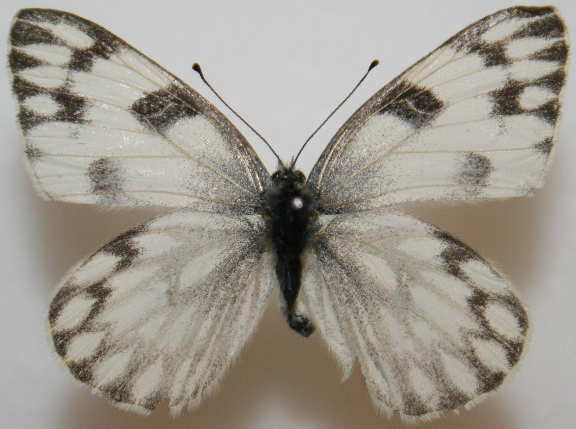 Female Checkered White upper